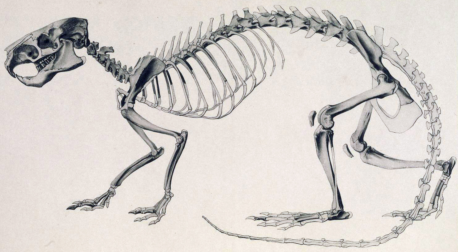 Neoreomys Reports of the Princeton University Expeditions to Patagonia, 1896-1899.. Princeton,The University,1901-32 [v. 1, 1903].